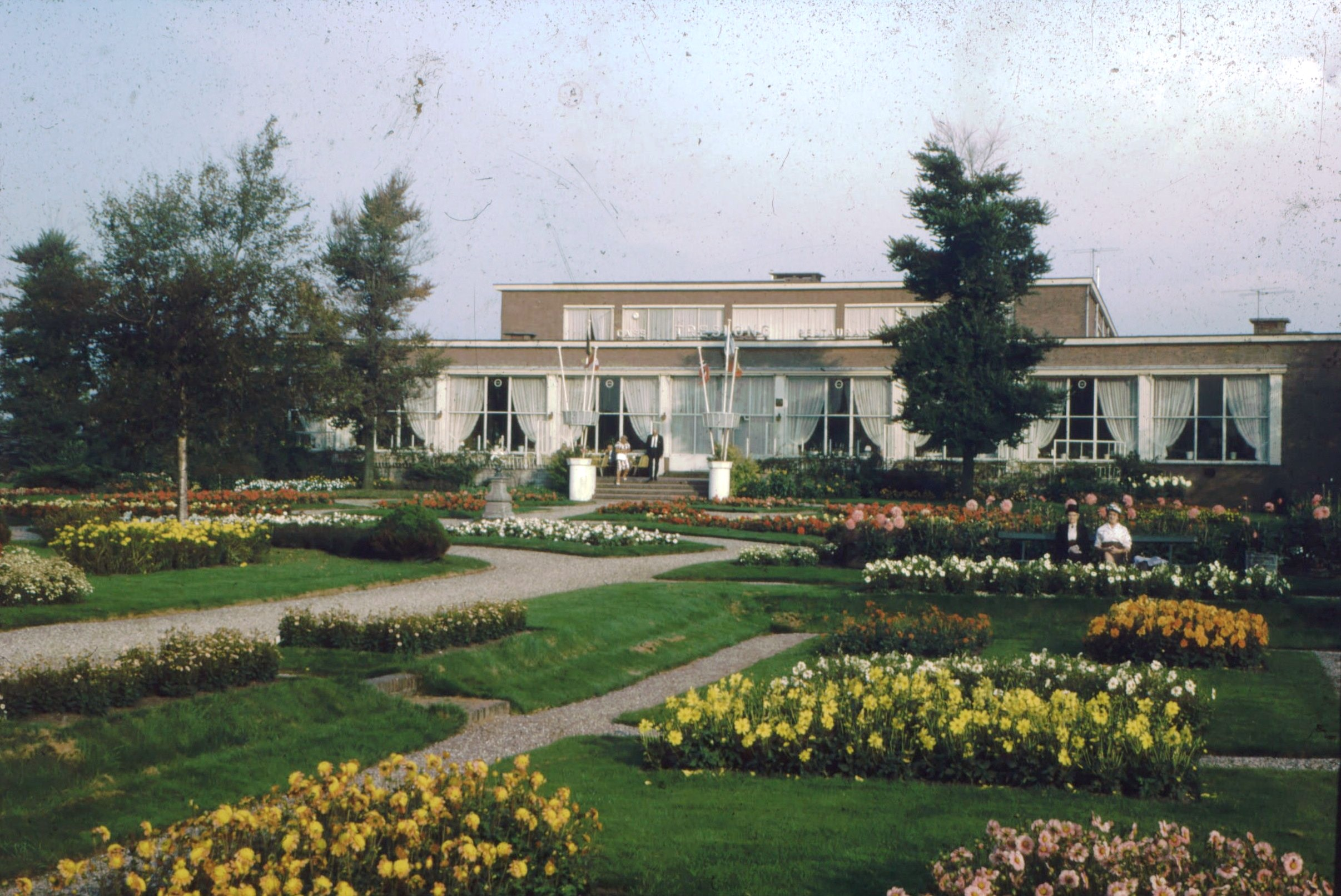 Former restaurant "Treslong" in Hillegom, The Netherlands